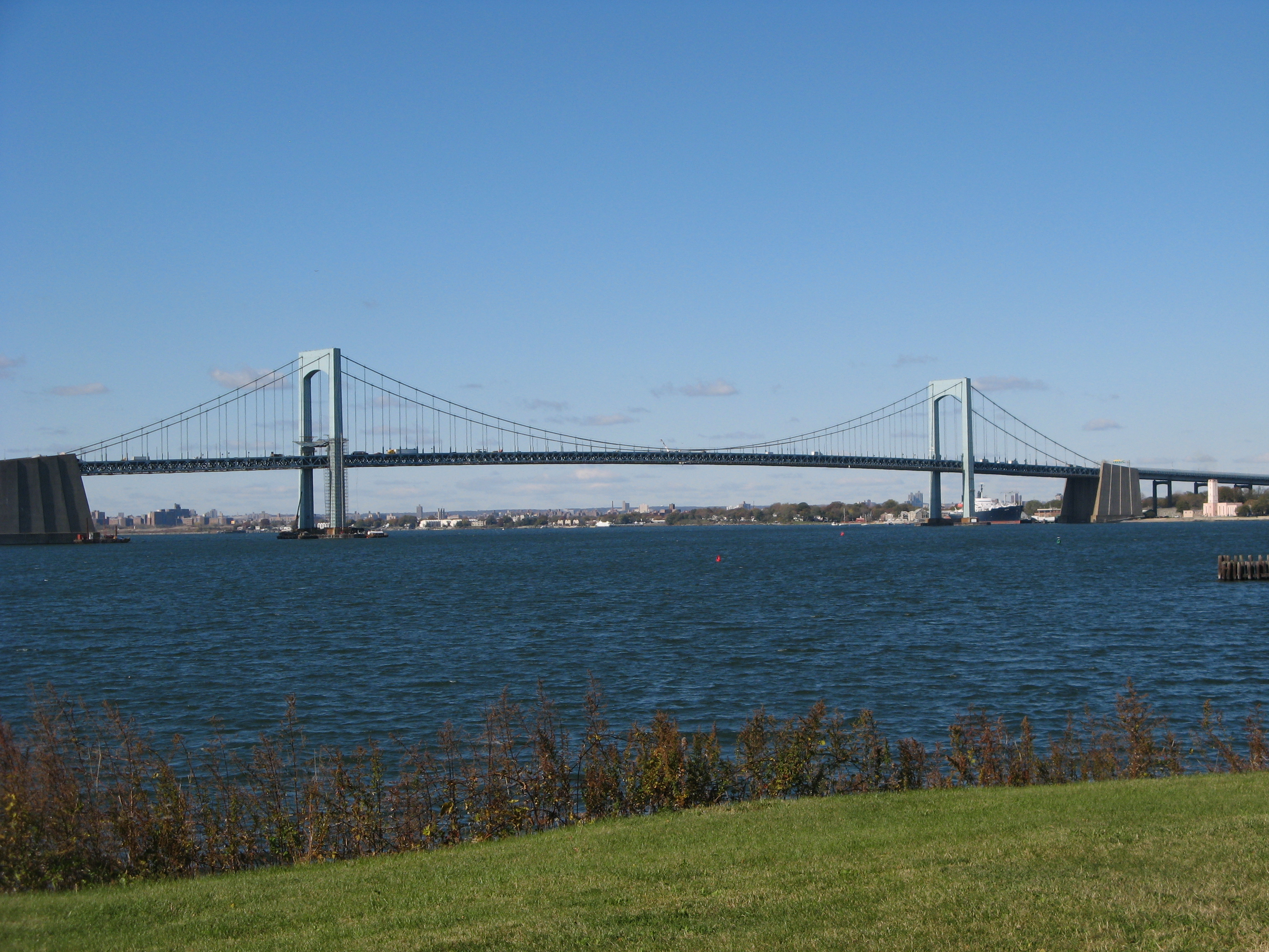 The Throgs Neck Bridge as seen from Fort Totten, New York.